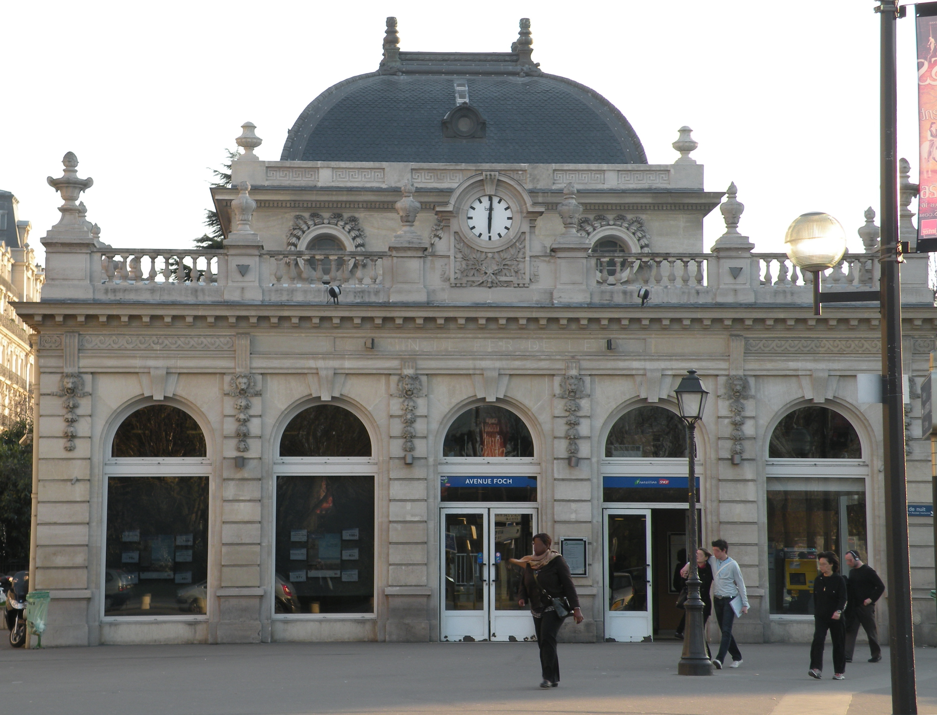 Gare de l'avenue Foch in Paris